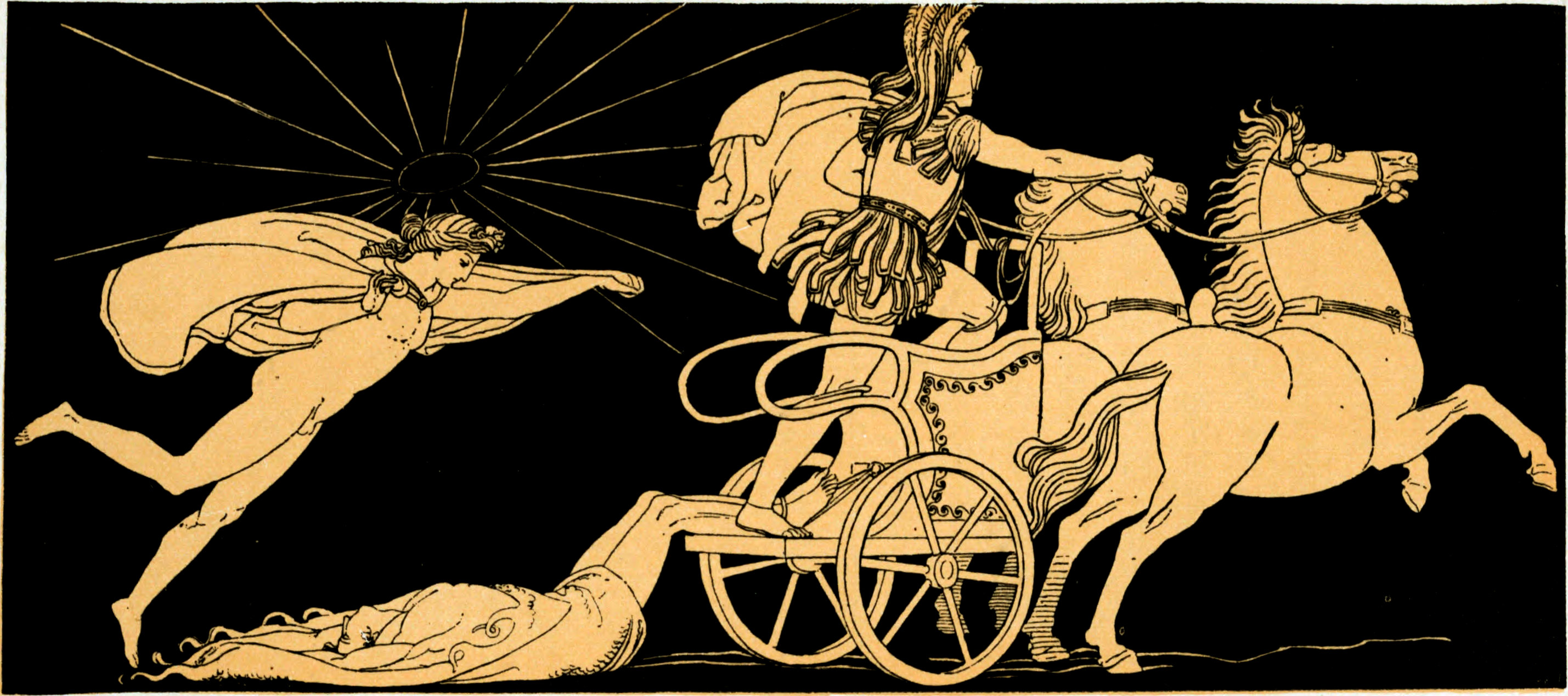 Hector's body dragged at the Chariot of Achilles.